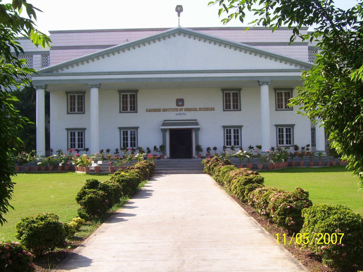 KIMS front view